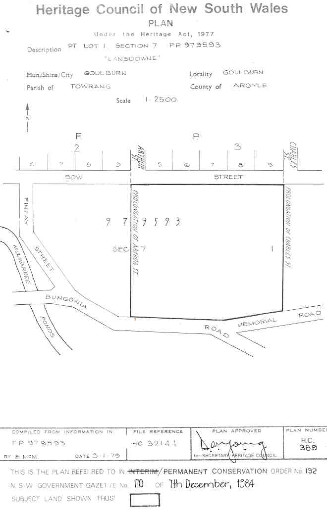 Lansdowne Park, Goulburn: PCO Plan Number 132